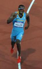 Rooney in 400m semi